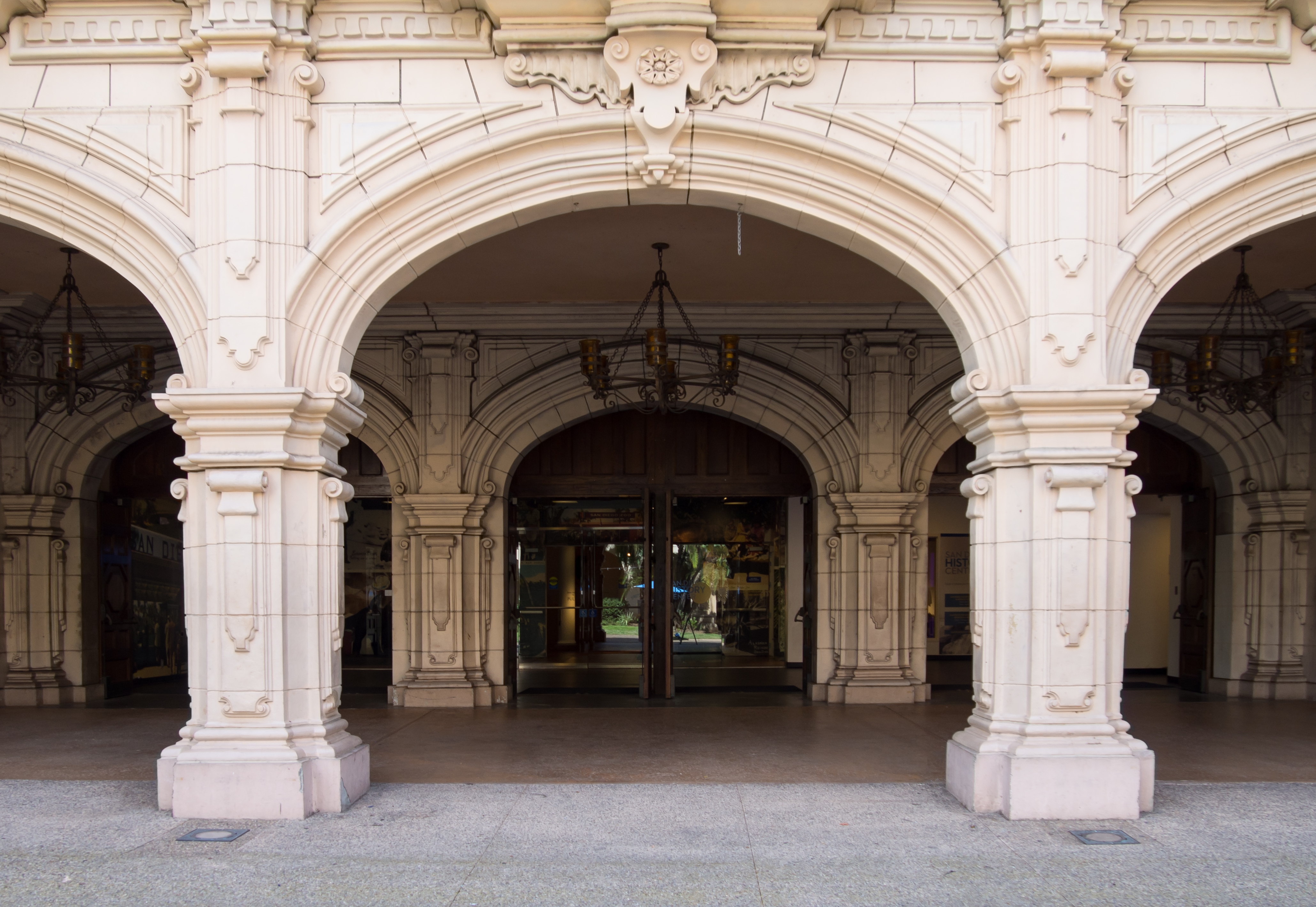 Entrance of the San Diego History Center in Balboa Park. Taken during the WikiConference North America 2016 Culture Crawl.